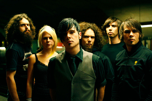 Promotional Pic, 2008